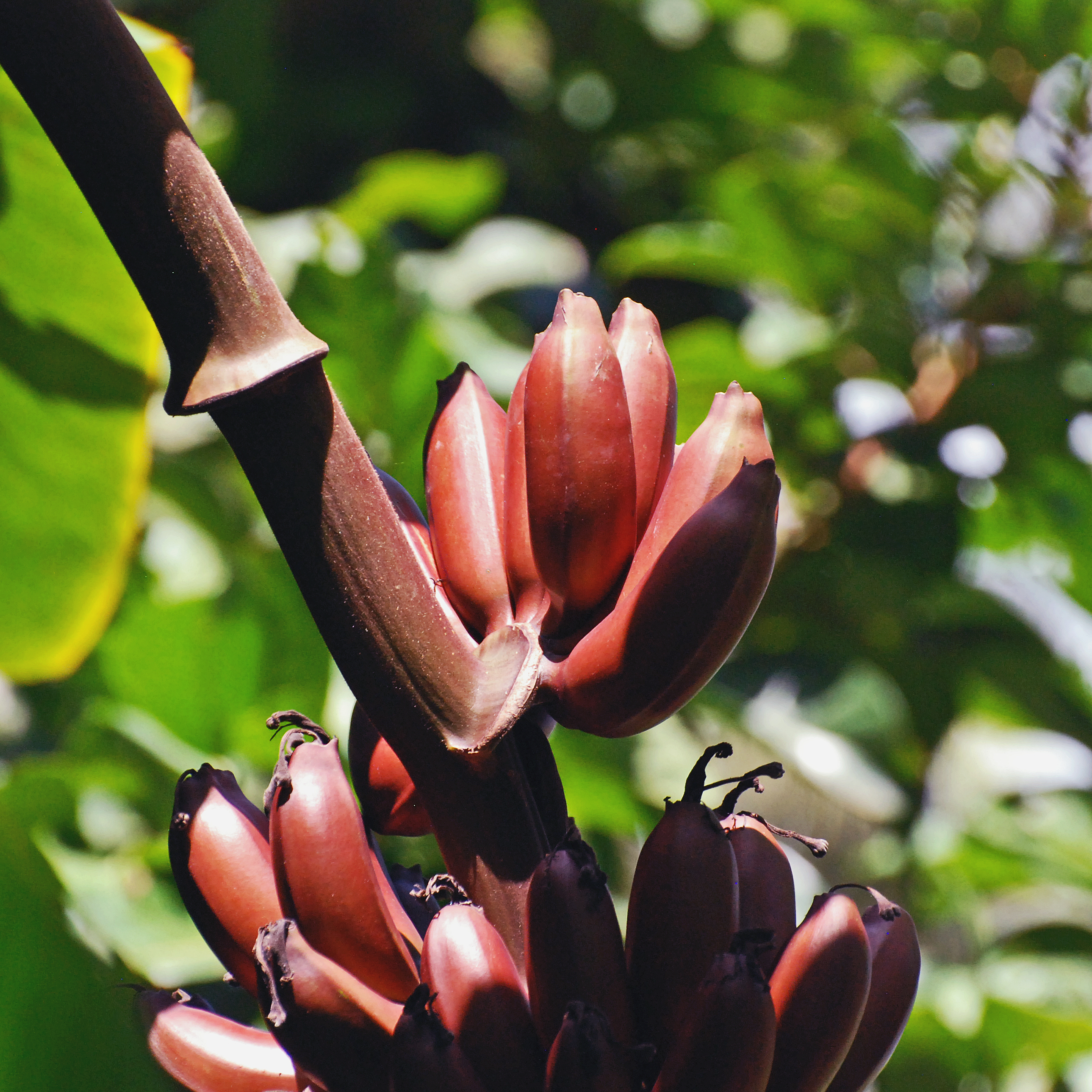 Red Dacca banana (Musa acuminata) / They are smaller, plumper, softer and sweeter than the yellow Cavendish varieties, with a slight raspberry-banana flavor